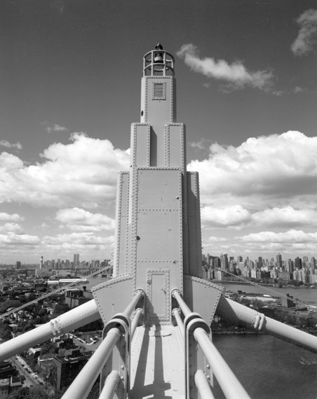 Triborough Bridge, view of saddle housing